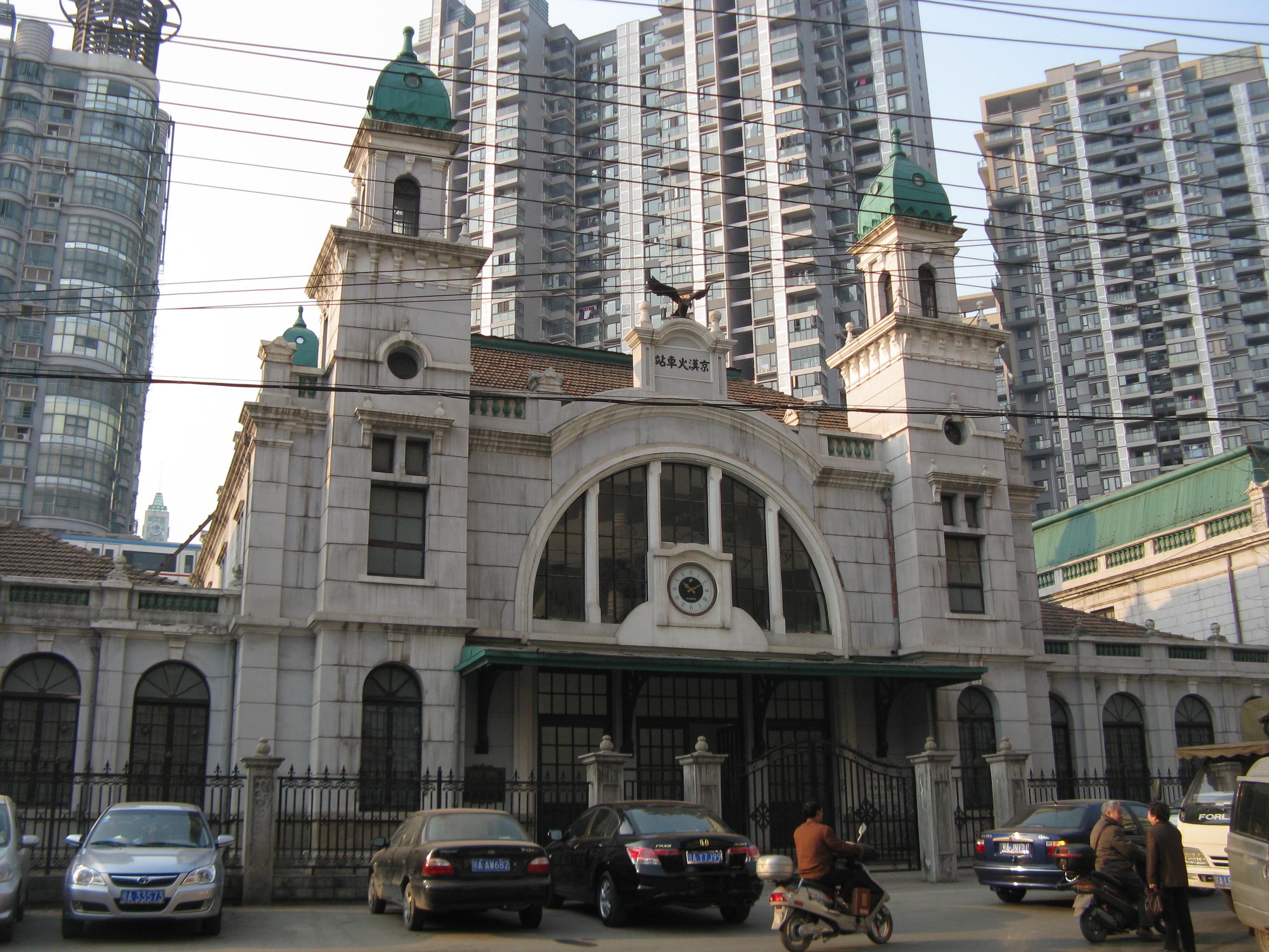 The disused Hankou Dazhimen Station - the original terminal of the Beijing to Hankou Railway